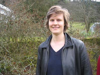 Simone Warzel at the Mathematical Research Institute of Oberwolfach, 2007